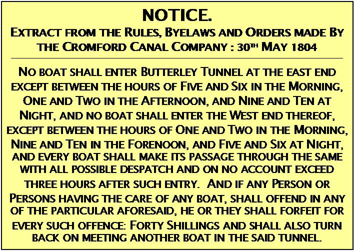 Facsimile of sign on Butterley Tunnel on the Cromford Canal